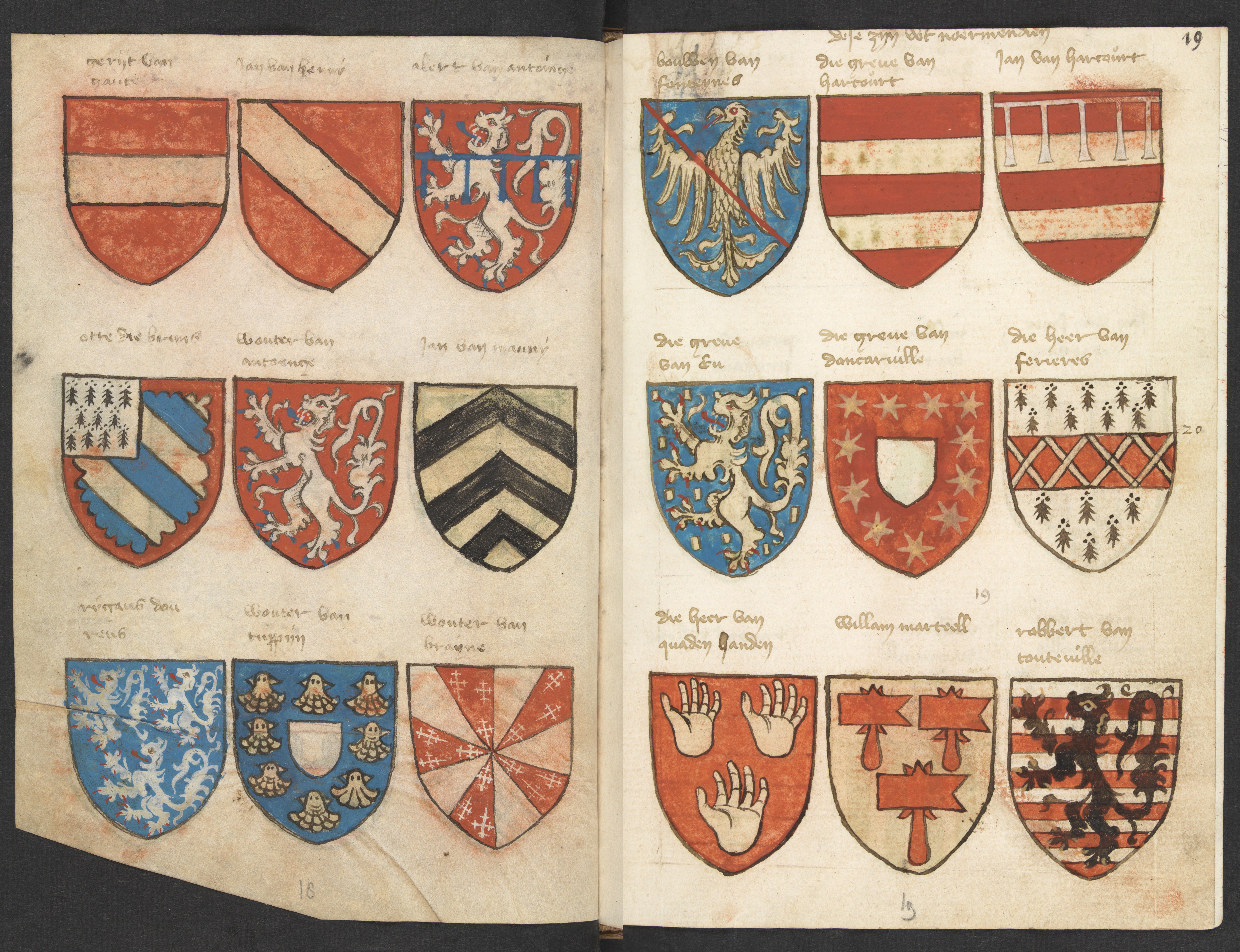 Lefthand side folio 018v; righthand side folio 019r from the Beyeren armorial / Wapenboek Beyeren